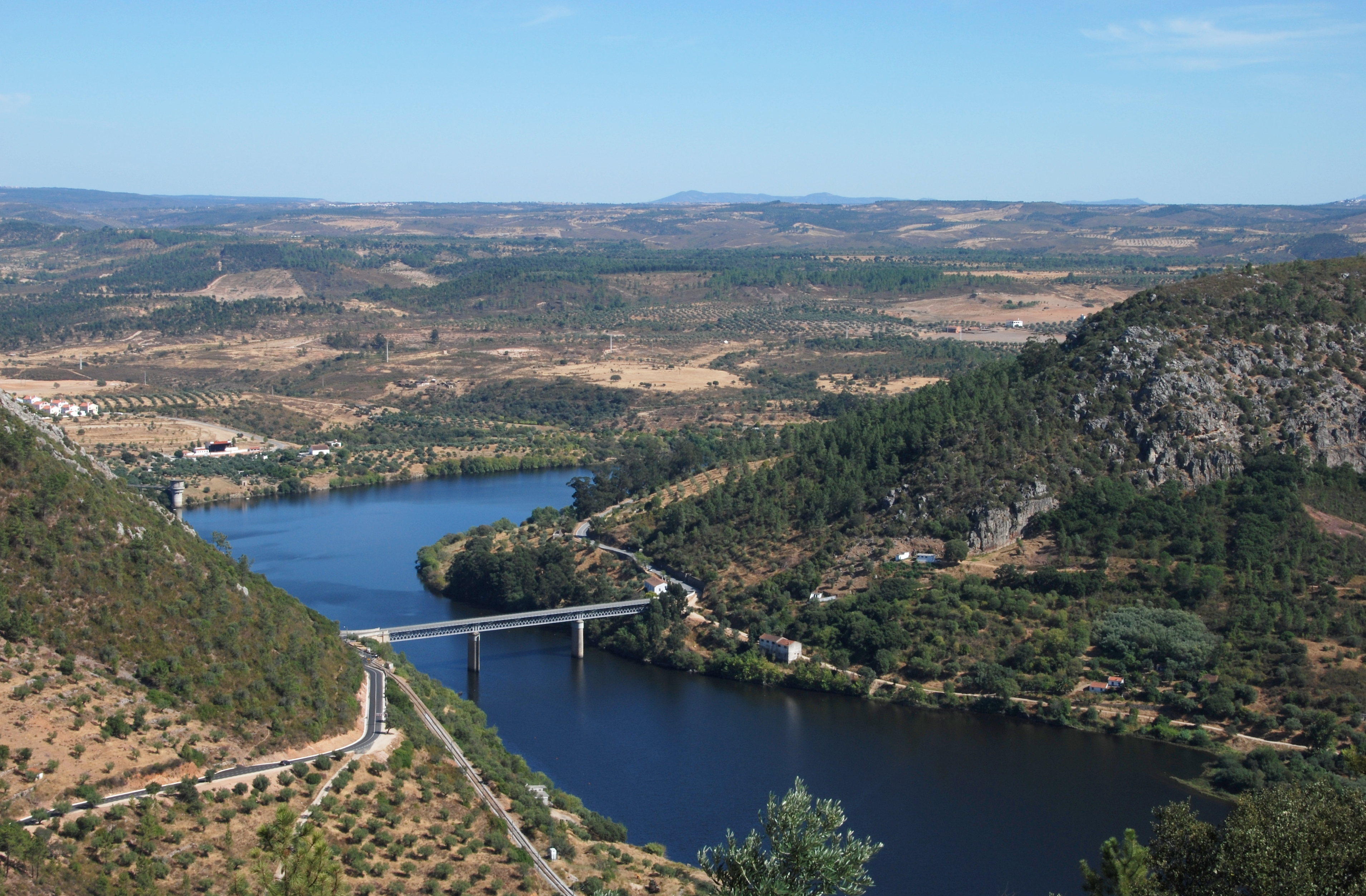 The Tagus River, Portugal. View to northeast from near Vila Velha de Ródão.